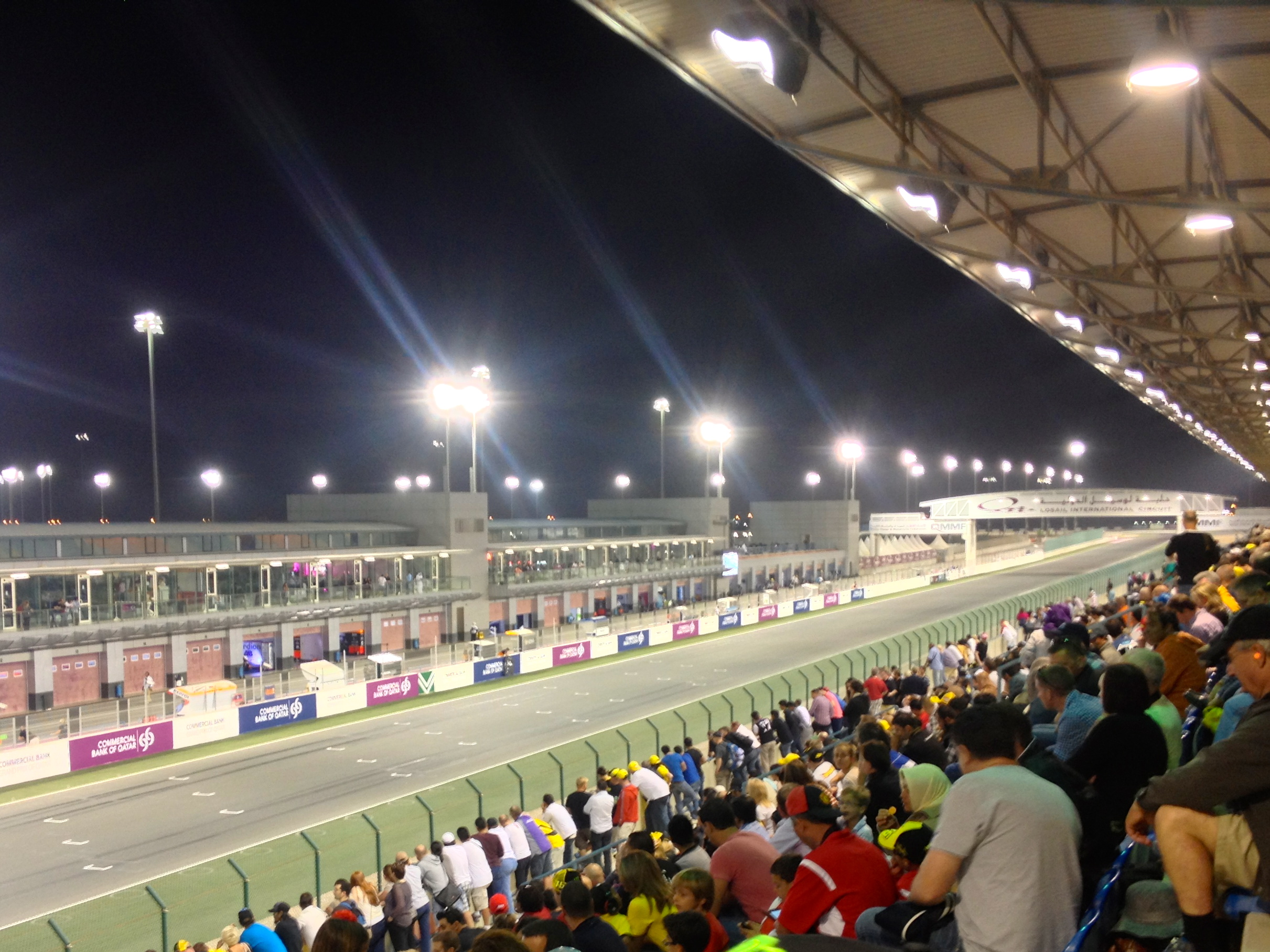 Spectators watching the 2013 MotGP race at the Losail International Circuit in Qatar